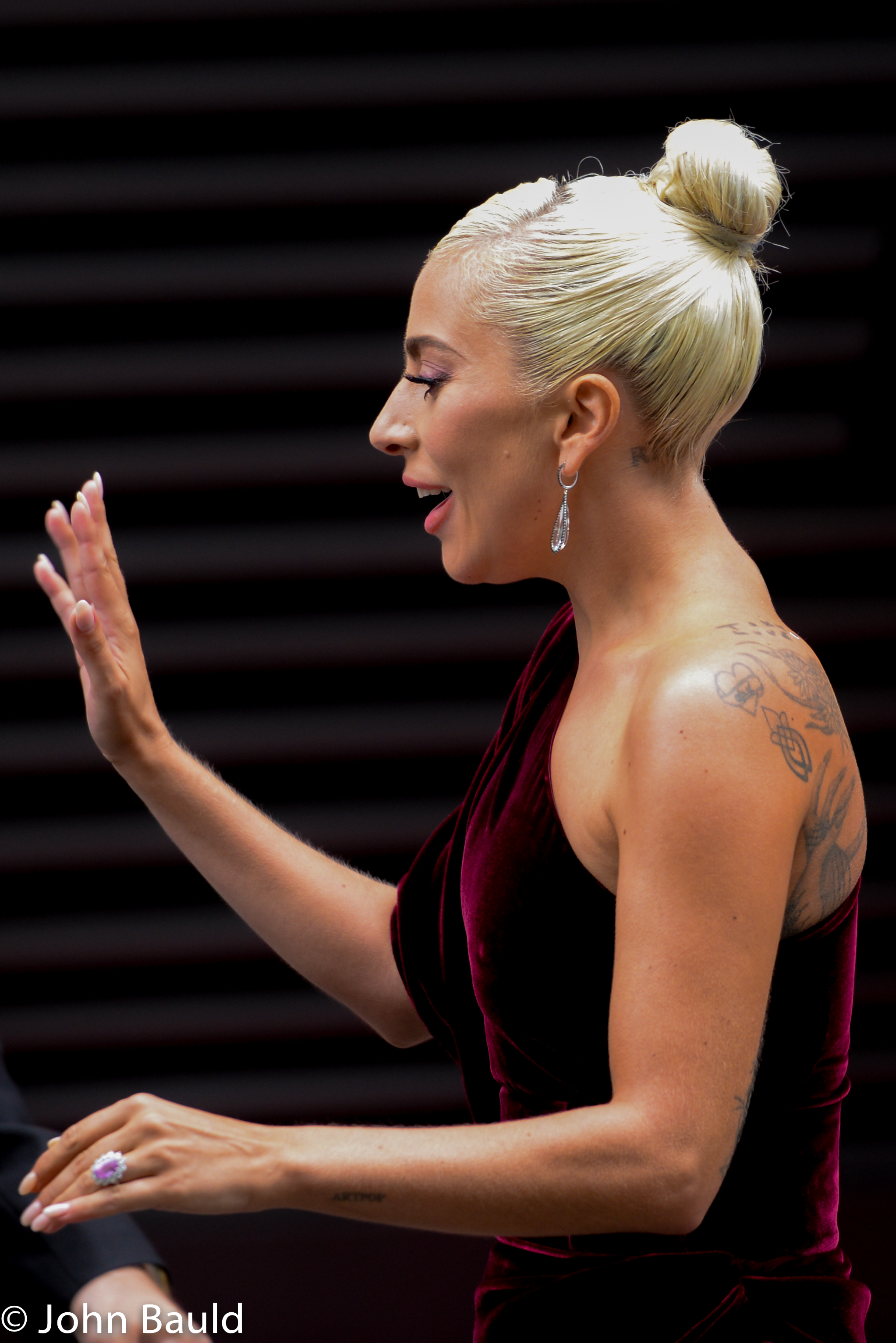 Lady Gaga at the 2018 Toronto International Film Festival